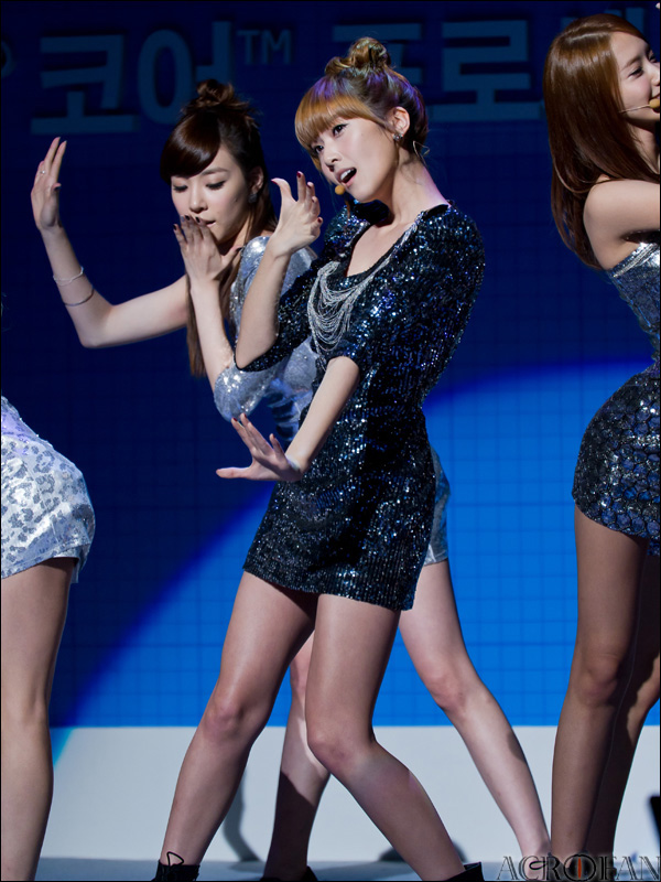 SNSD Visual Dream World Premiere Showcase